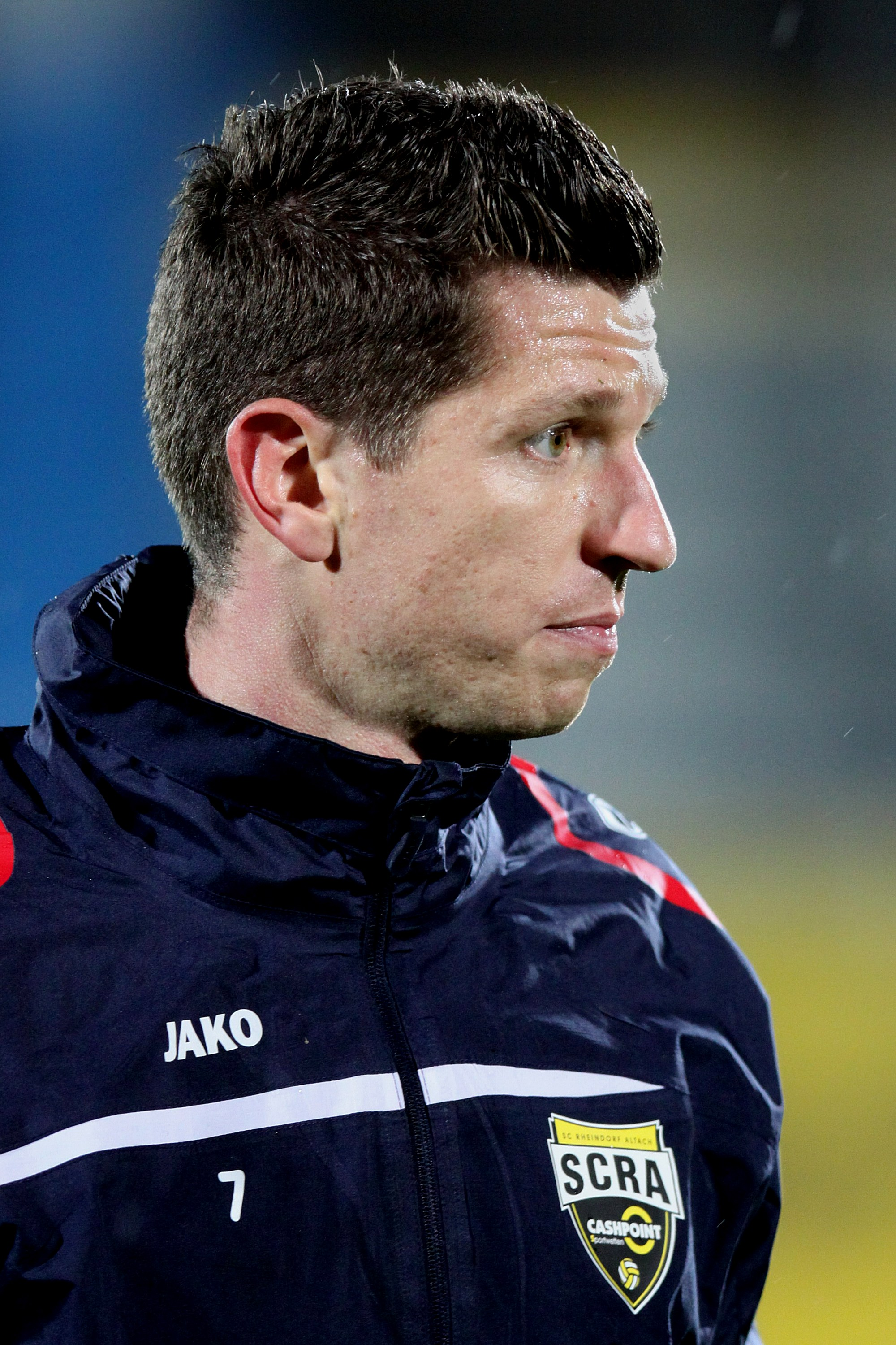 2014–15 Austrian Football Bundesliga: SC Wiener Neustadt vs. SC Rheindorf Altach (2:0 / 0:0) at 2014-12-06 in the Stadion Wiener Neustadt. – The photo shows en: (SC Wiener Neustadt/SC Rheindorf Altach). The making of this work was supported by Wikimedia Austria. For other files made with the support of Wikimedia Austria, please see the category Supported by Wikimedia Österreich.